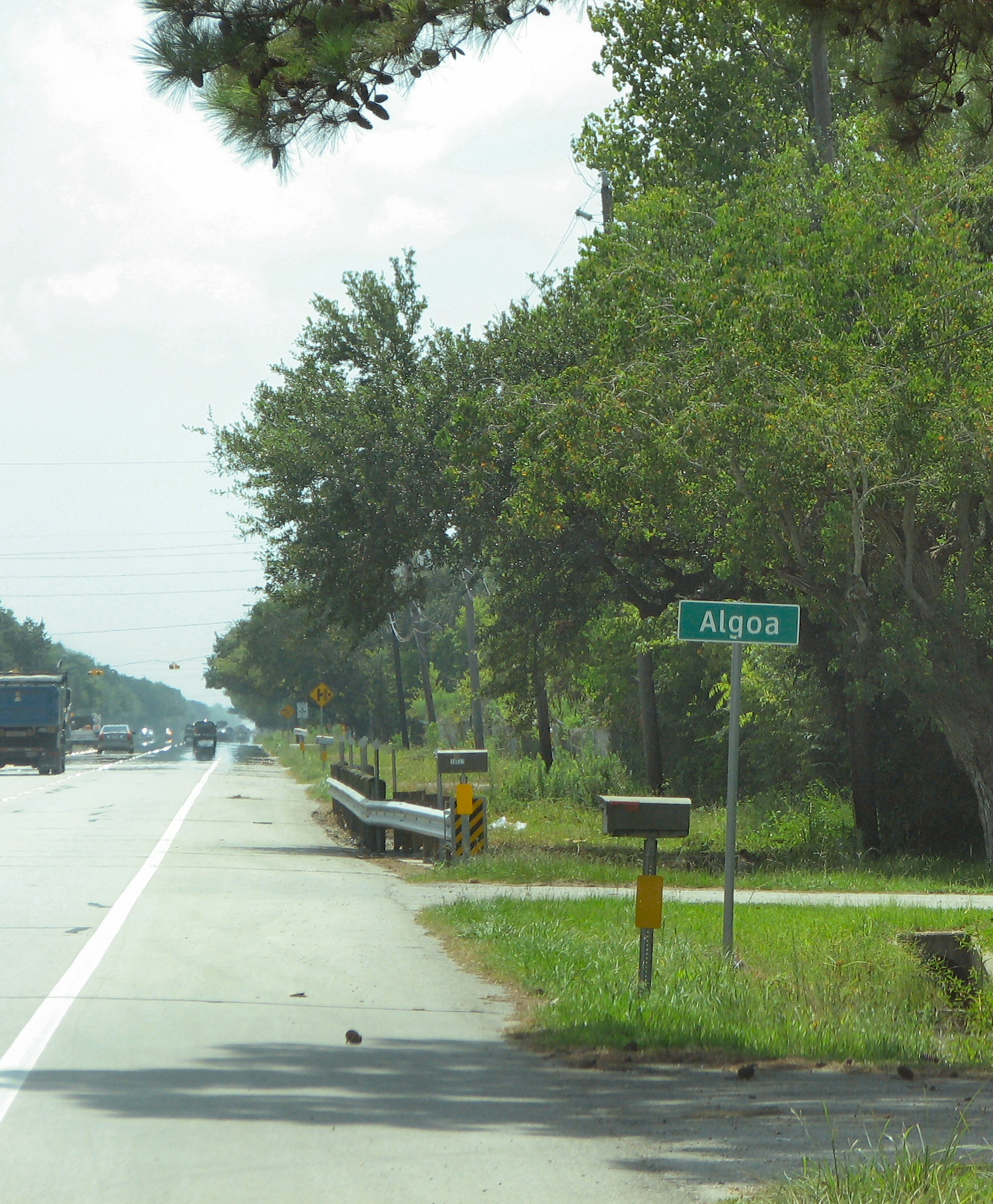 Photo taken by myself of Algoa, Texas "town" marker. Nsaum75 22:05, 12 August 2007 (UTC)